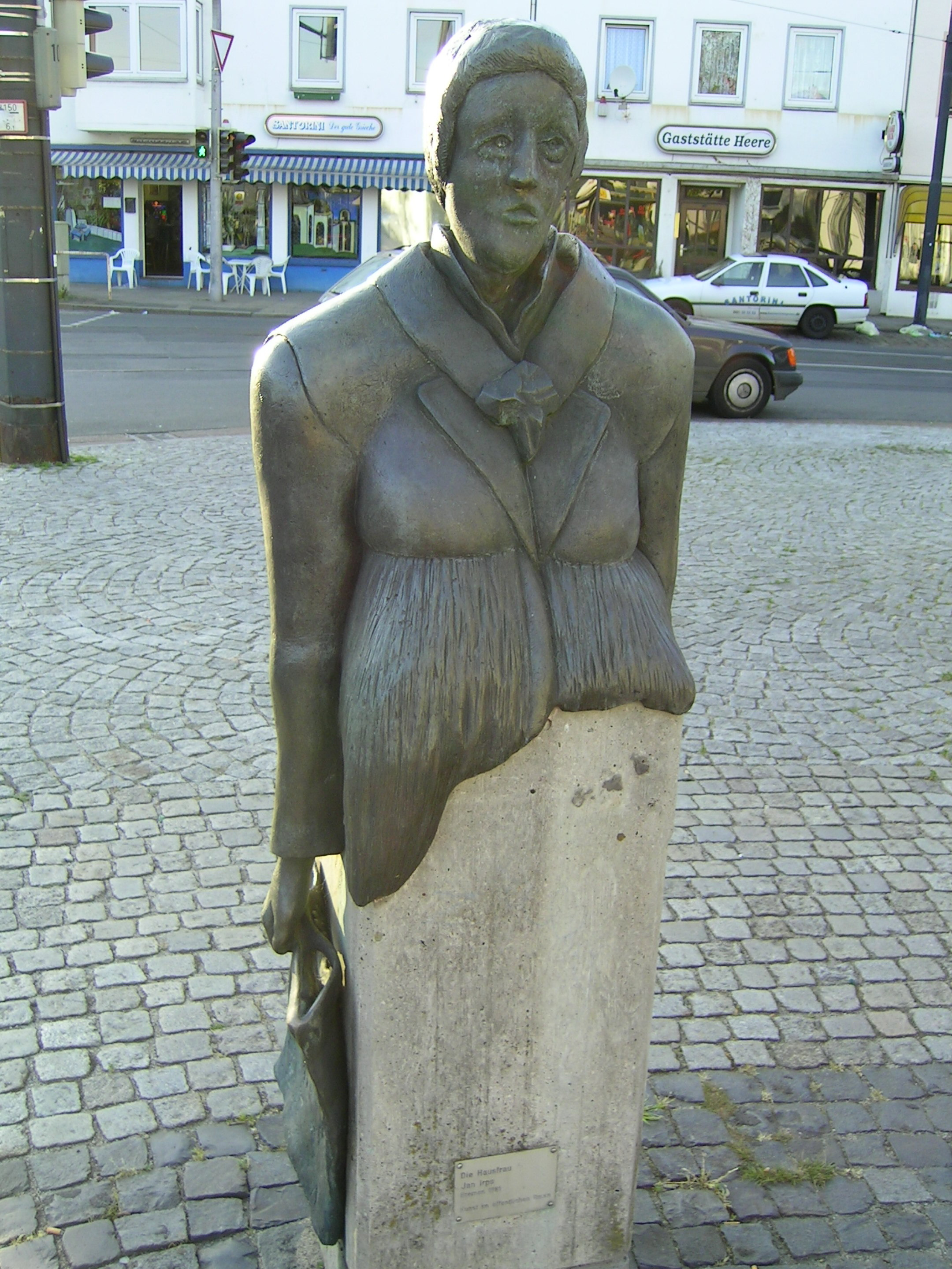 Statue in Bremen, germany, in at the wartbug stop. with another five statues, the six form a circle. 53°05′37.98″N 8°47′20.20″E / 53.0938833°N 8.788944°E